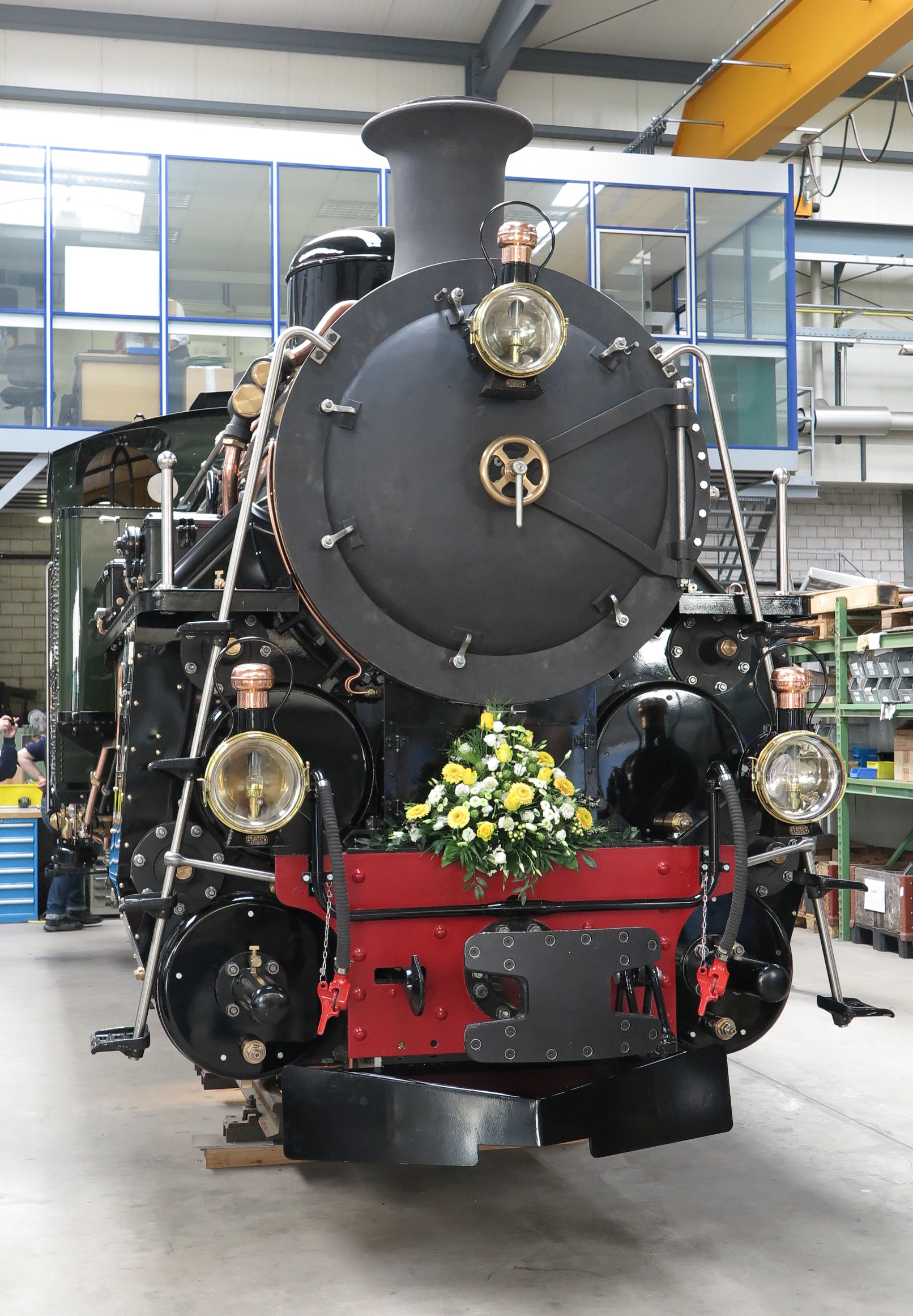 Front view of engine 704 during the rollout ceremony in Uzwil SG